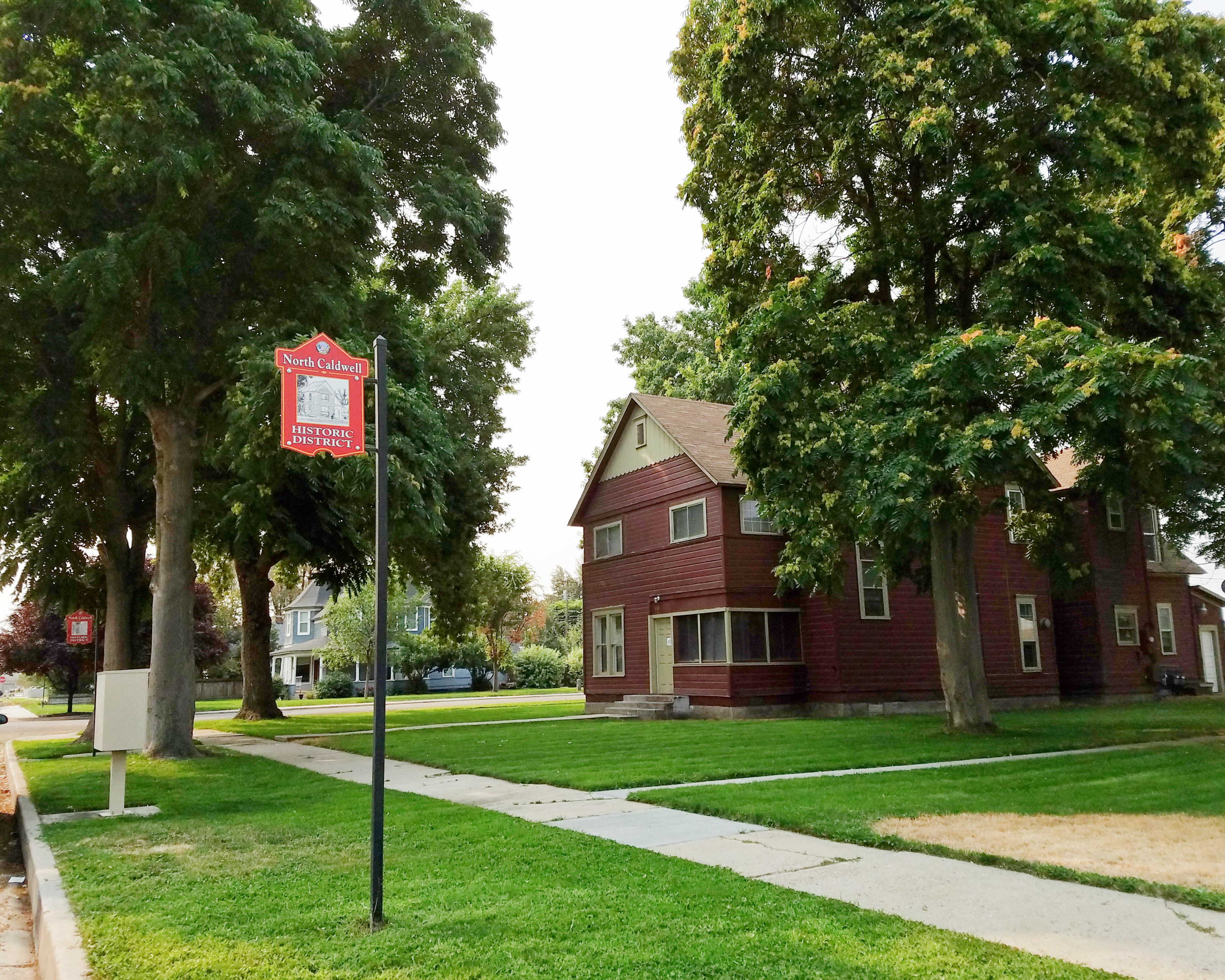 From Belmont Street near 9th Avenue in Caldwell, Idaho, the North Caldwell Historic District.